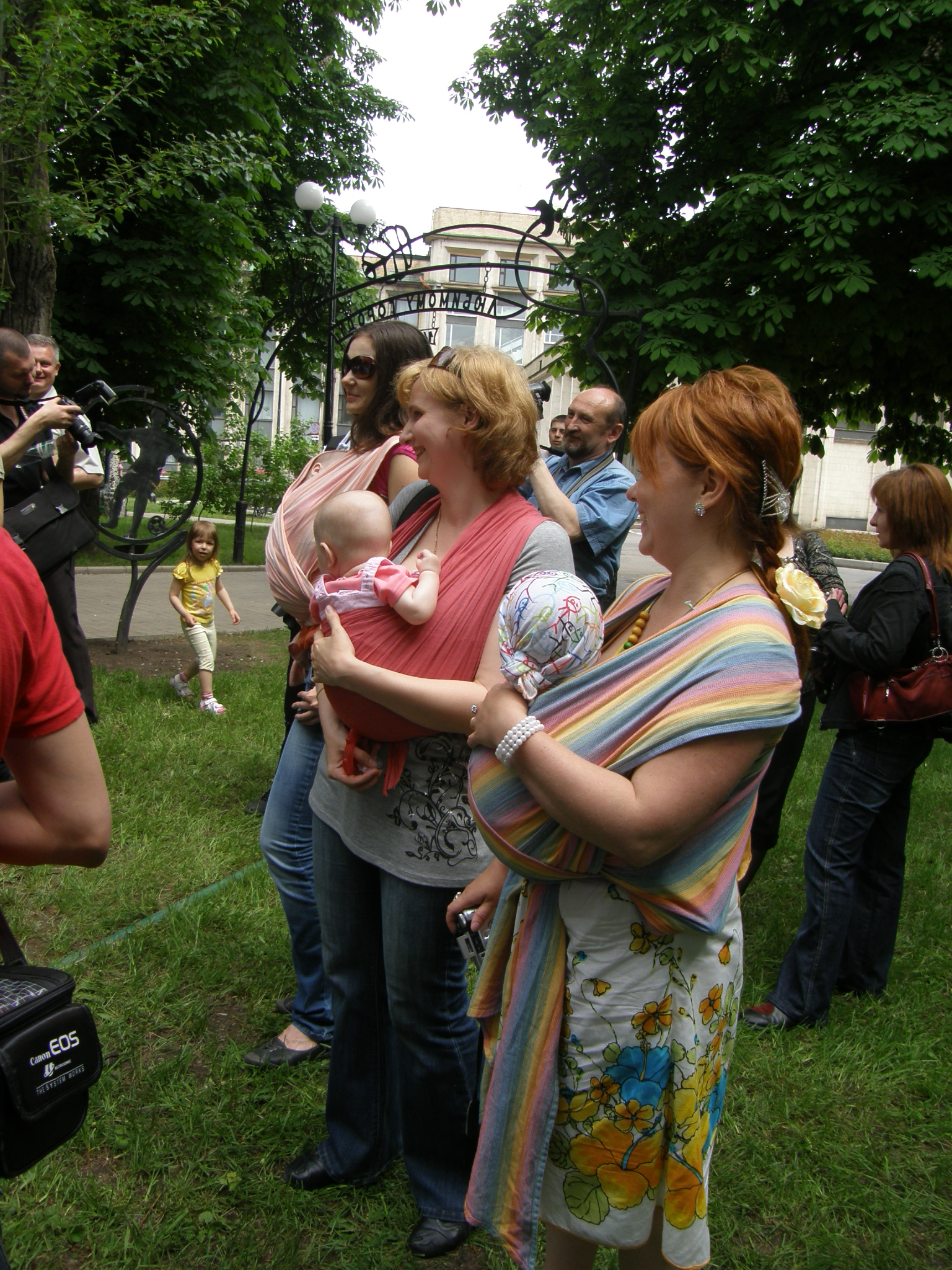 Brides parade in Donetsk, 2010